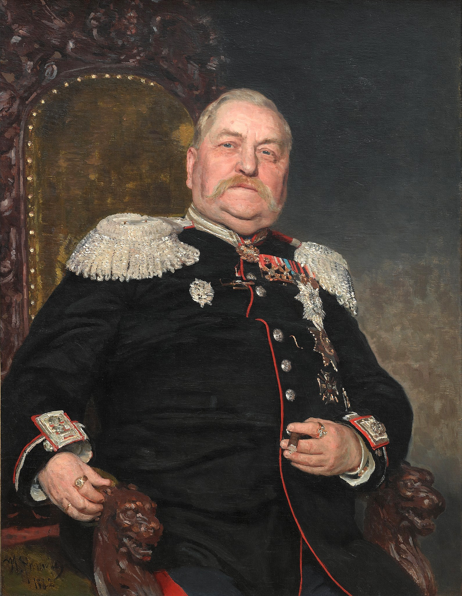 Portrait of military engineer engineer–general, baron Andrei Ivanovich Delvig (1813–1887).